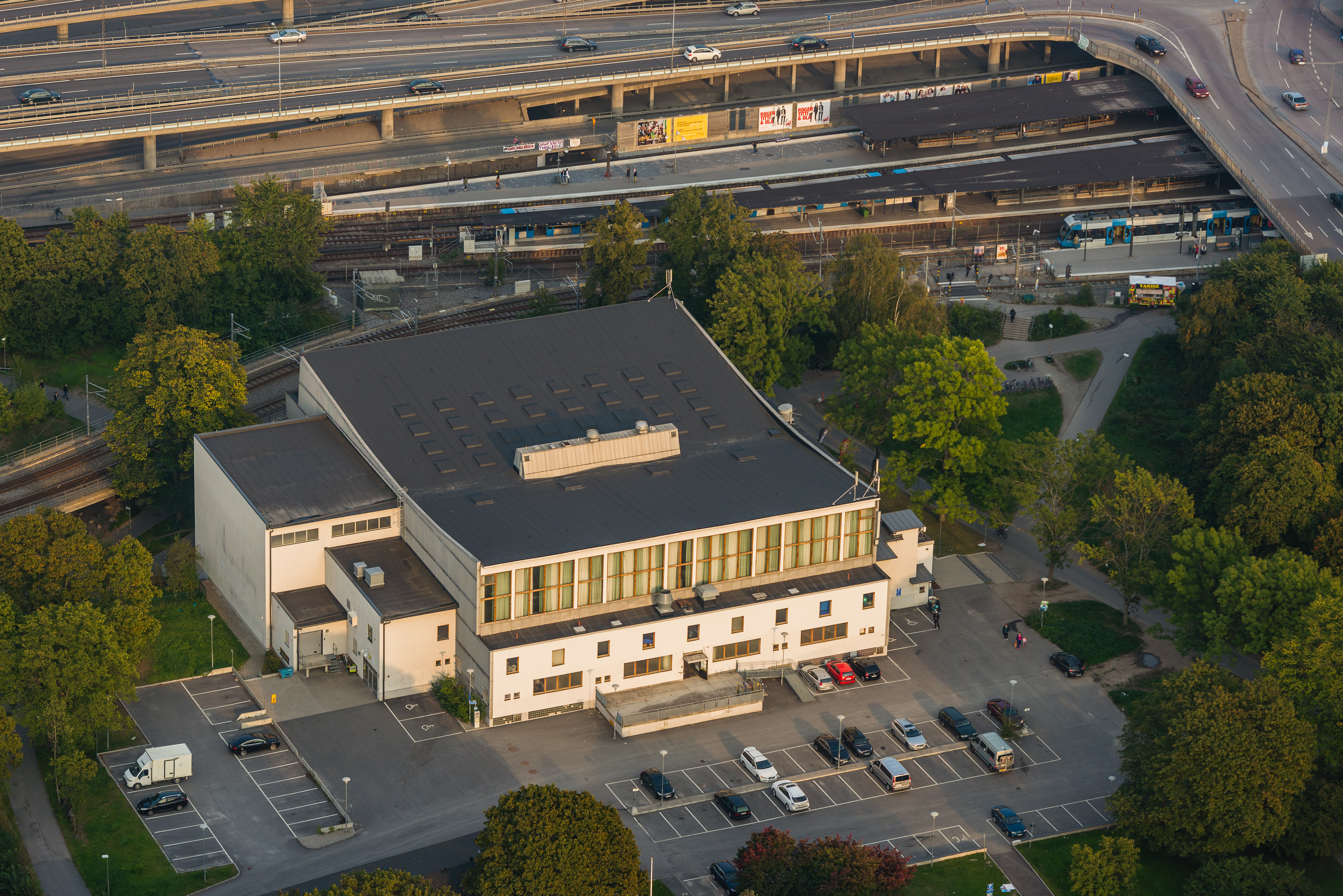 Enskedehallen and Gullmarsplan Metro station.